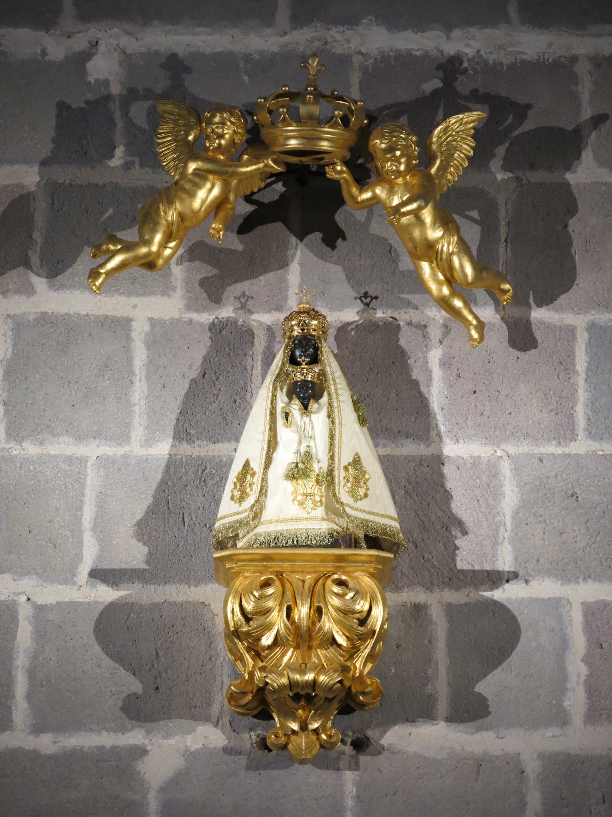 The Black Virgin of Notre-Dame de Vassivière in the chapel of Notre-Dame de Vassivière (Puy-de-Dôme, France).